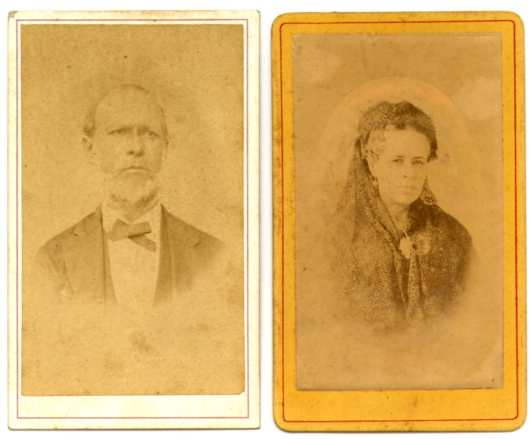 José de Barros Accioli Pimentel and wife D. Ana Carlota de Albuquerque Mello